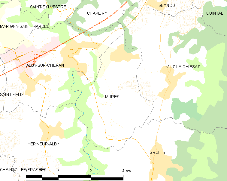 Map of French municipality Mûres